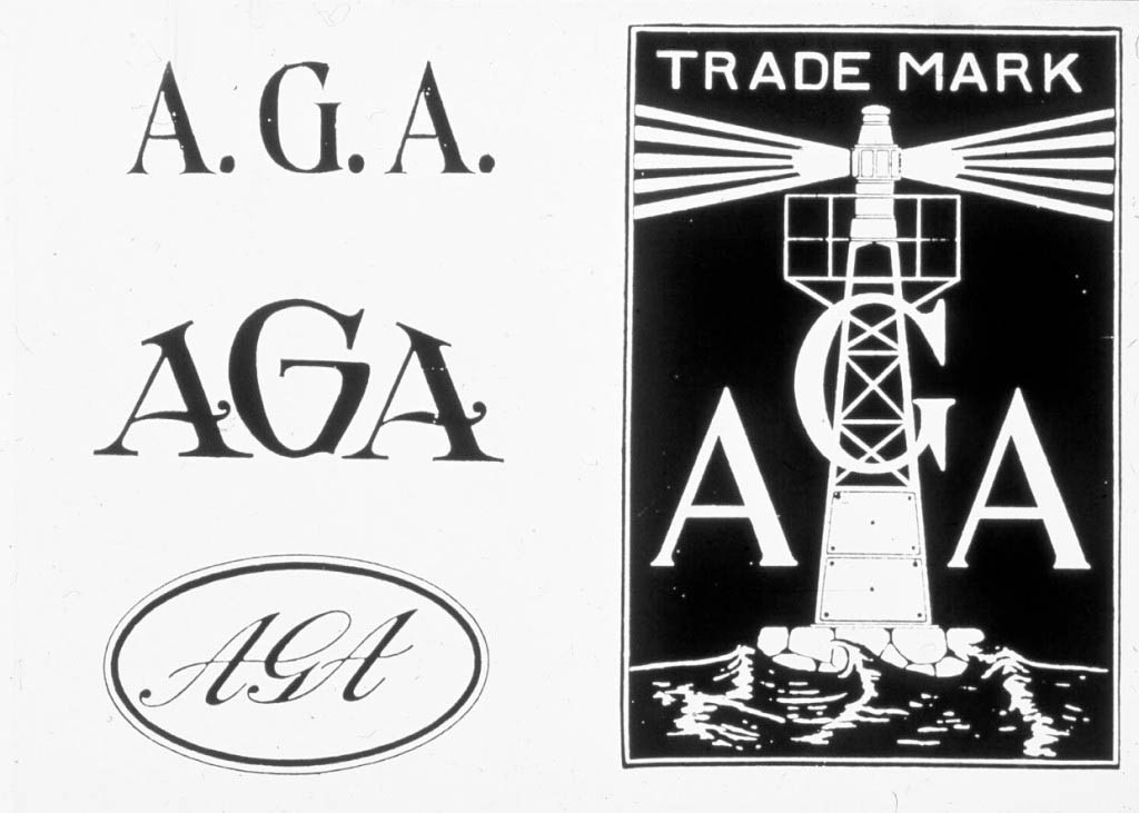 Non valid trademark for AGA acetylene based lighthouse equipment in early 1900.